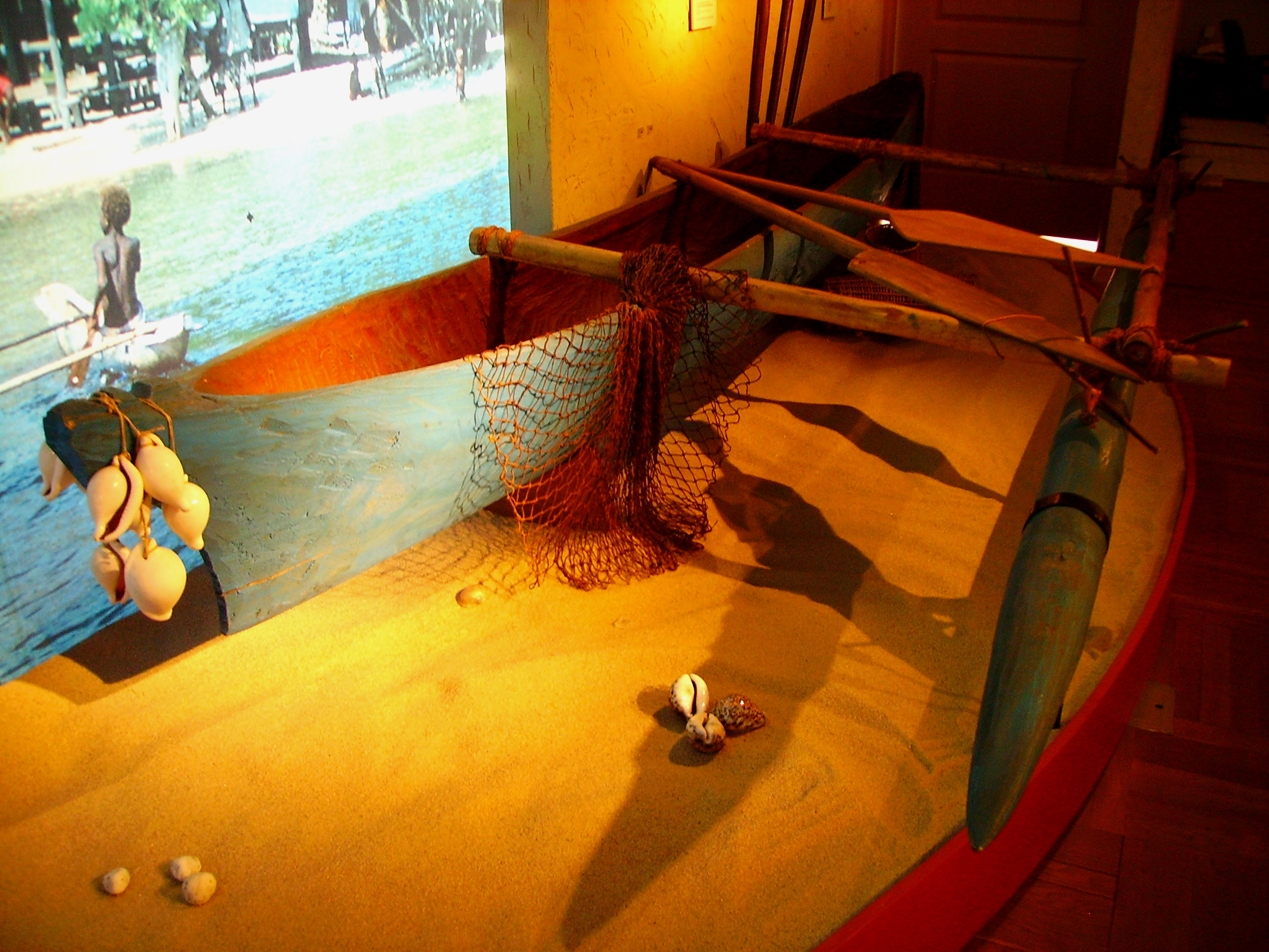 A pao pao pirogue from Apia (Samoa) carved on palm wood exposed at the Ethnographic Museum in Warsaw